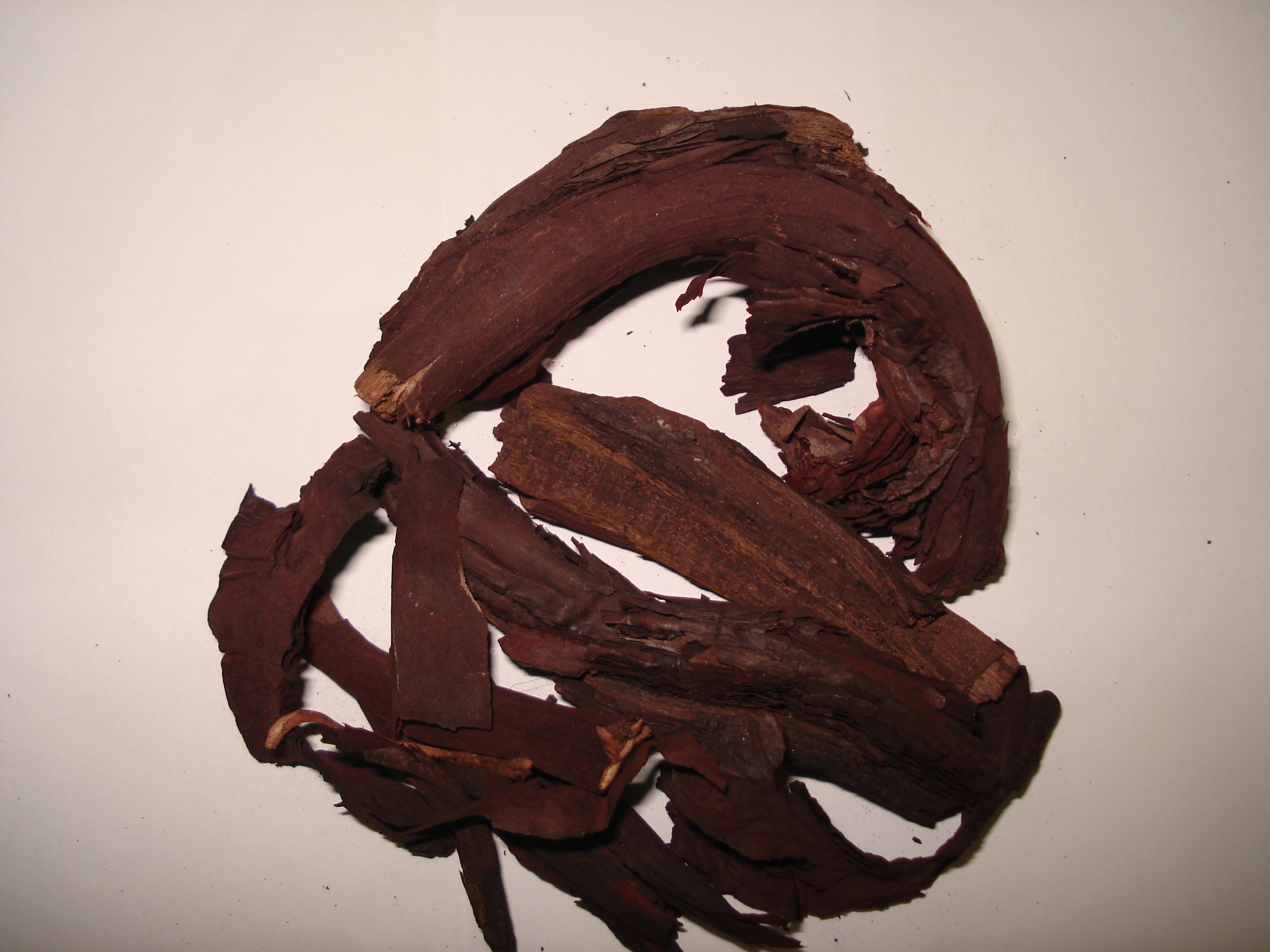 Ratan root is a root of a Kashmiri plant used in food to impart red color